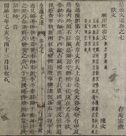 Ma Nhai Ky Cong Bi Van, also known as "Cliff Smoothing in Memory of Worthy Deed", written by Nguyen Trung Ngan in the year 1334 or 1335.